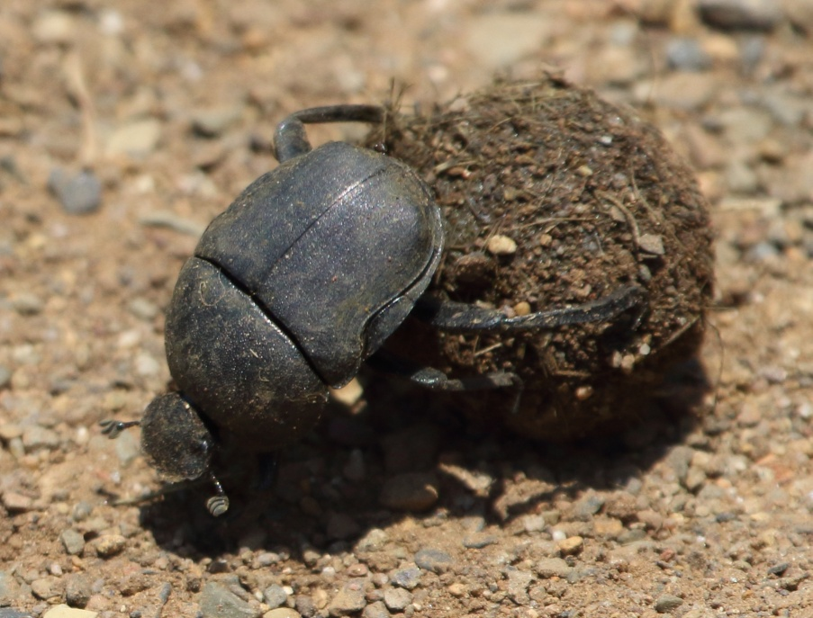 Garreta unicolor, a dung beetle, rolling a ball of rhino dung; Ithala Game Reserve, KwaZulu-Natal. DungBeetleMAP record no. 244